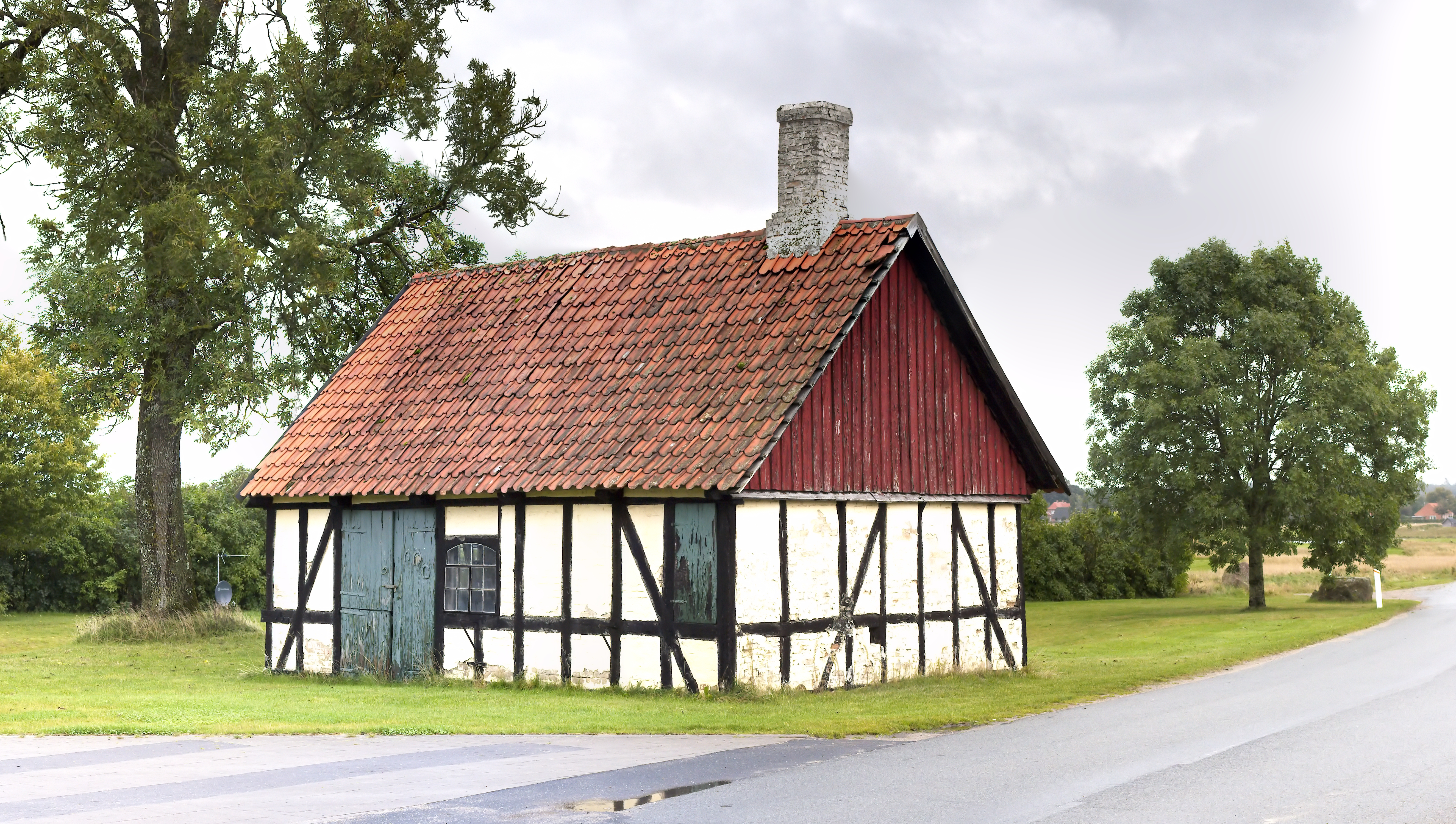 Forge at Lyngbygård Smedjen